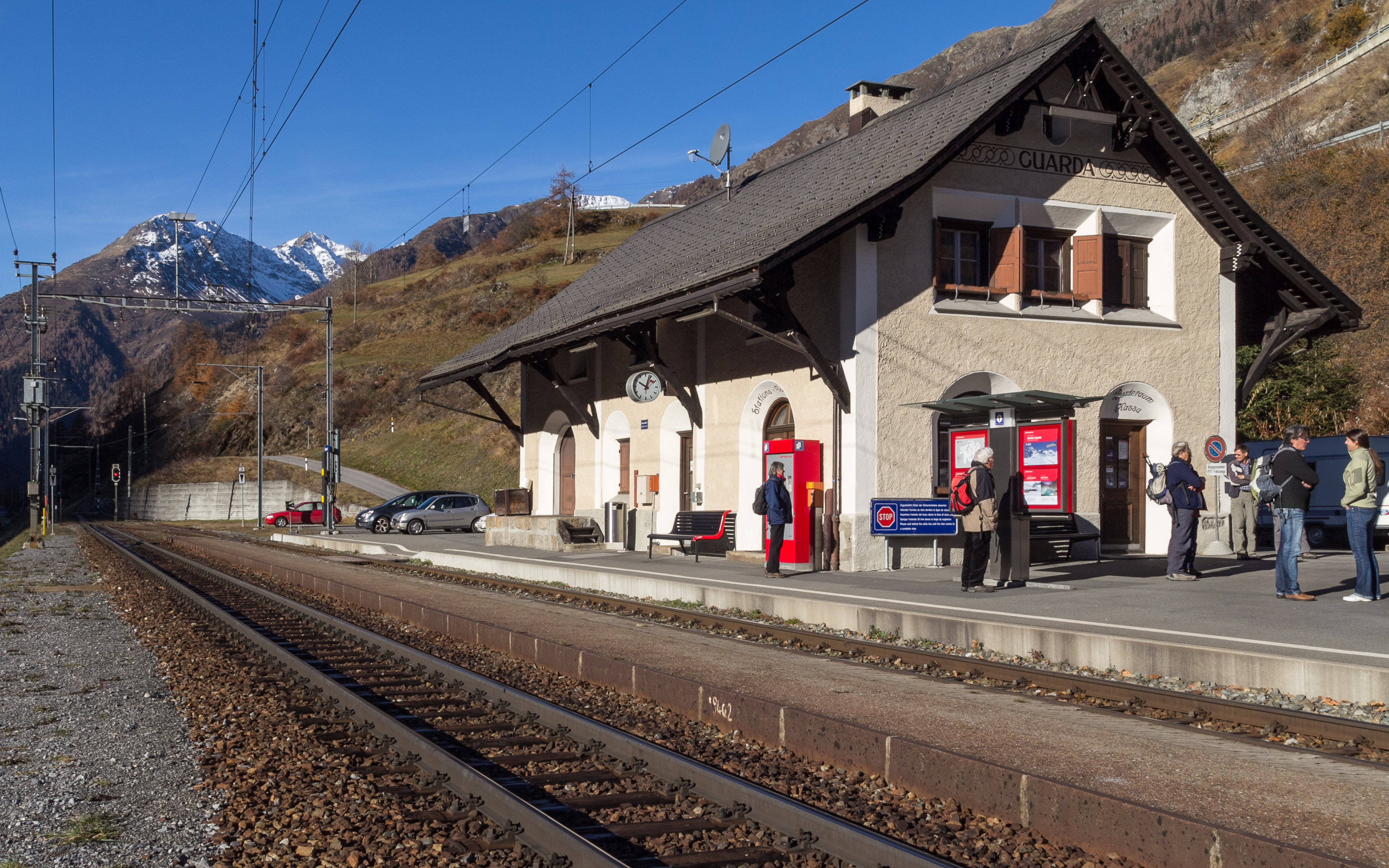 Guarda train station in Lower Engadine, Switzerland